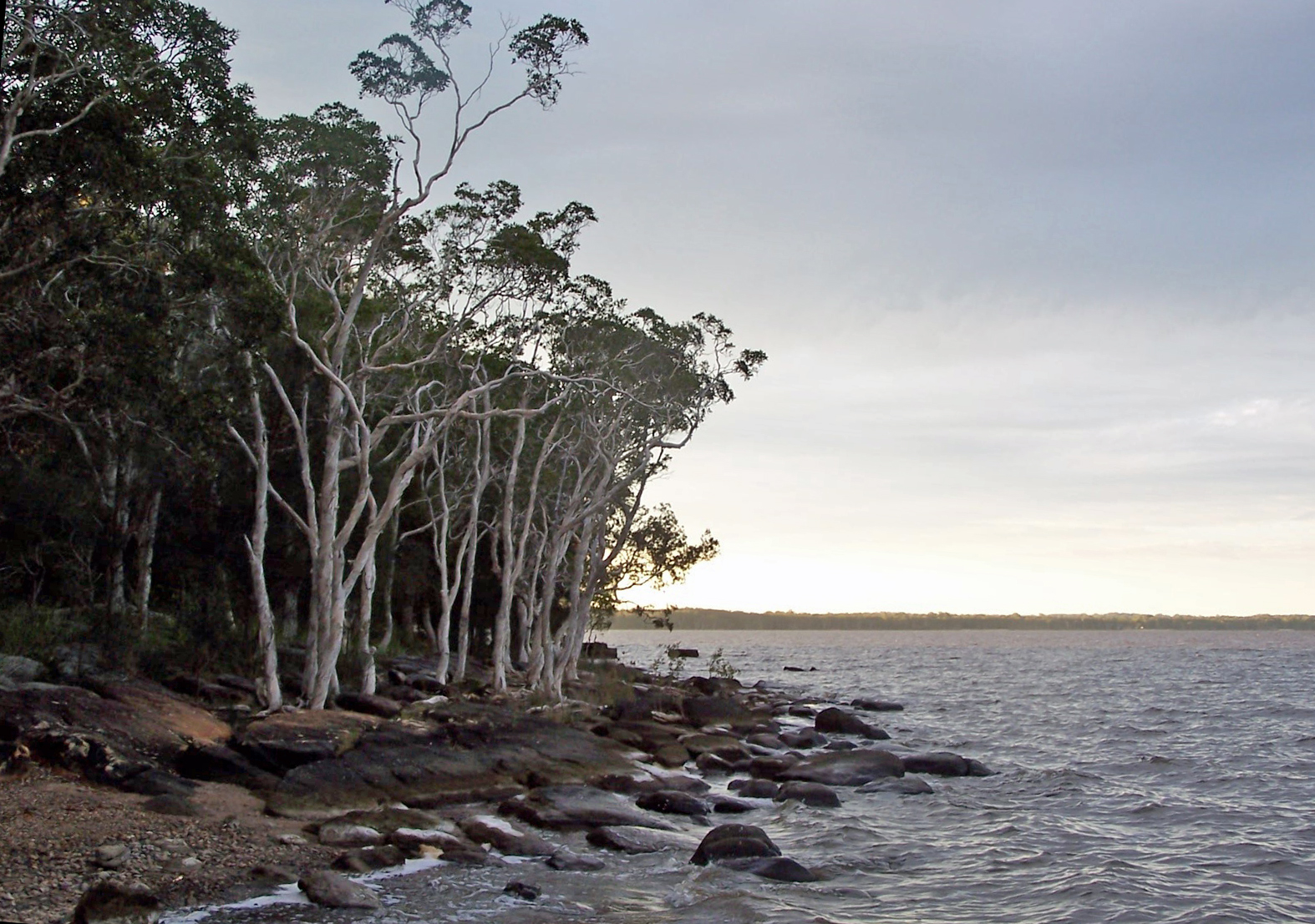 Lake Cootharaba, Boreen Point, QLD, Australia